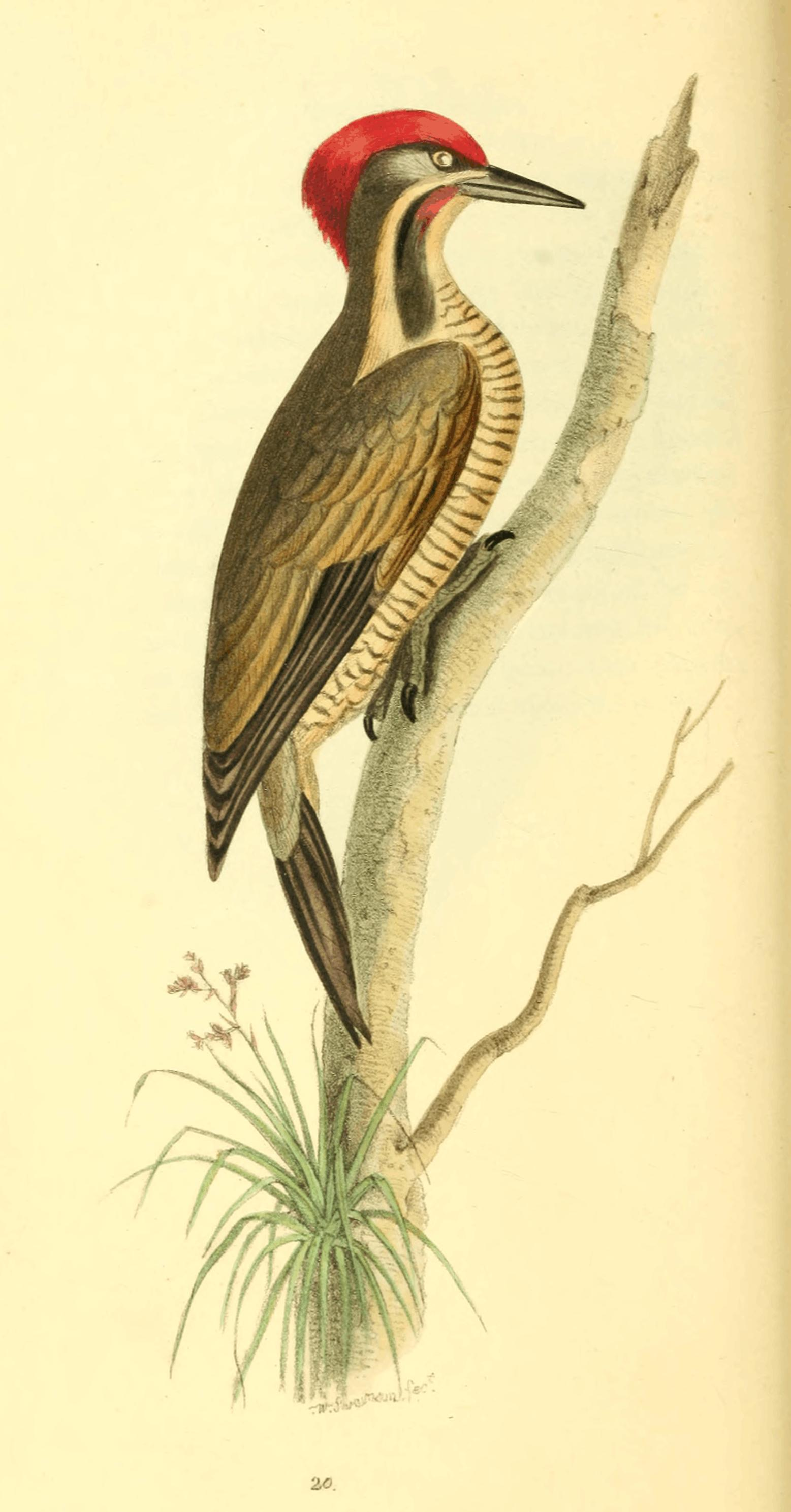 Plate 20. Picus Braziliensis. Brazilian Woodpecker. Modern accepted name (2012) is Piculus chrysochloros.